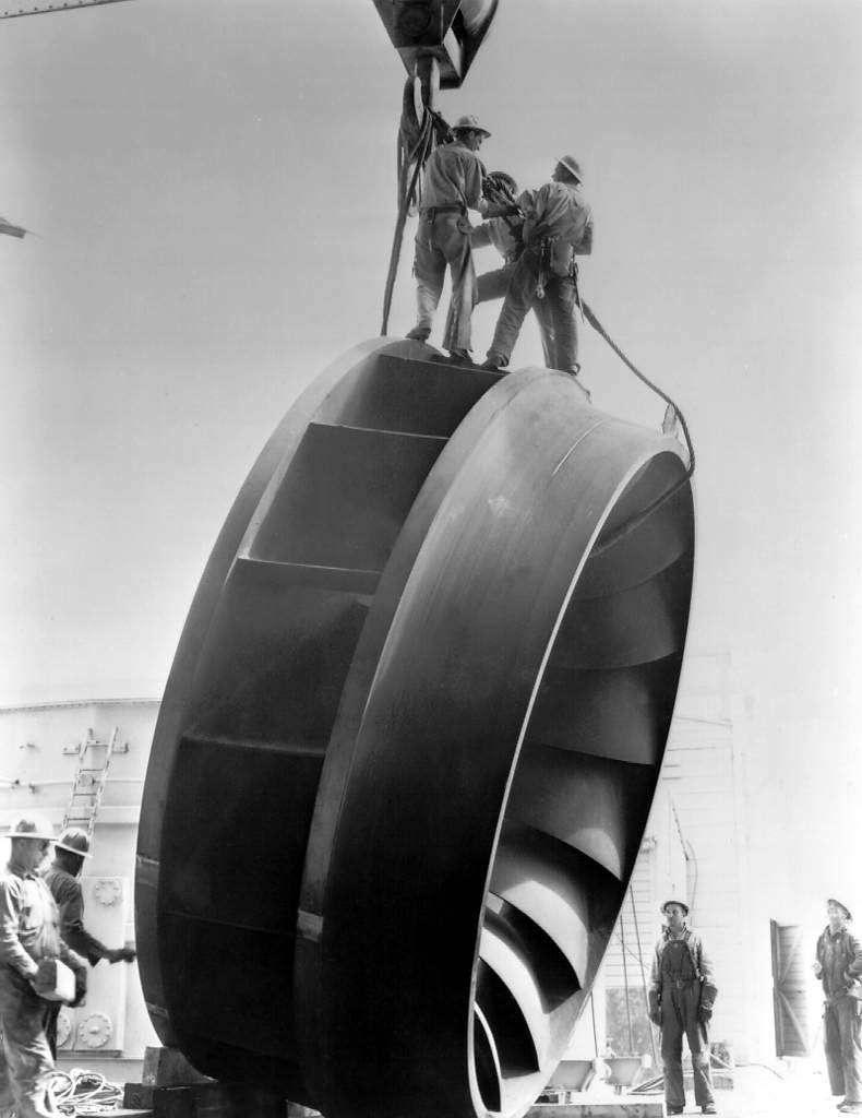 Generator Turbine Impeller; Francis Runner, Grand Coulee Dam - Rodete Francis, Presa Grand Coulee